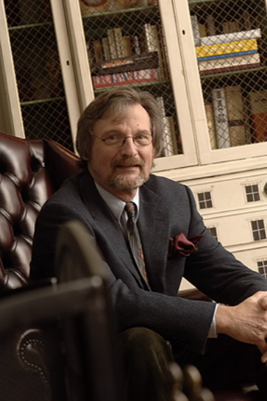 Author Nigel Hamilton photographed by Frank Monkiewicz in 2008